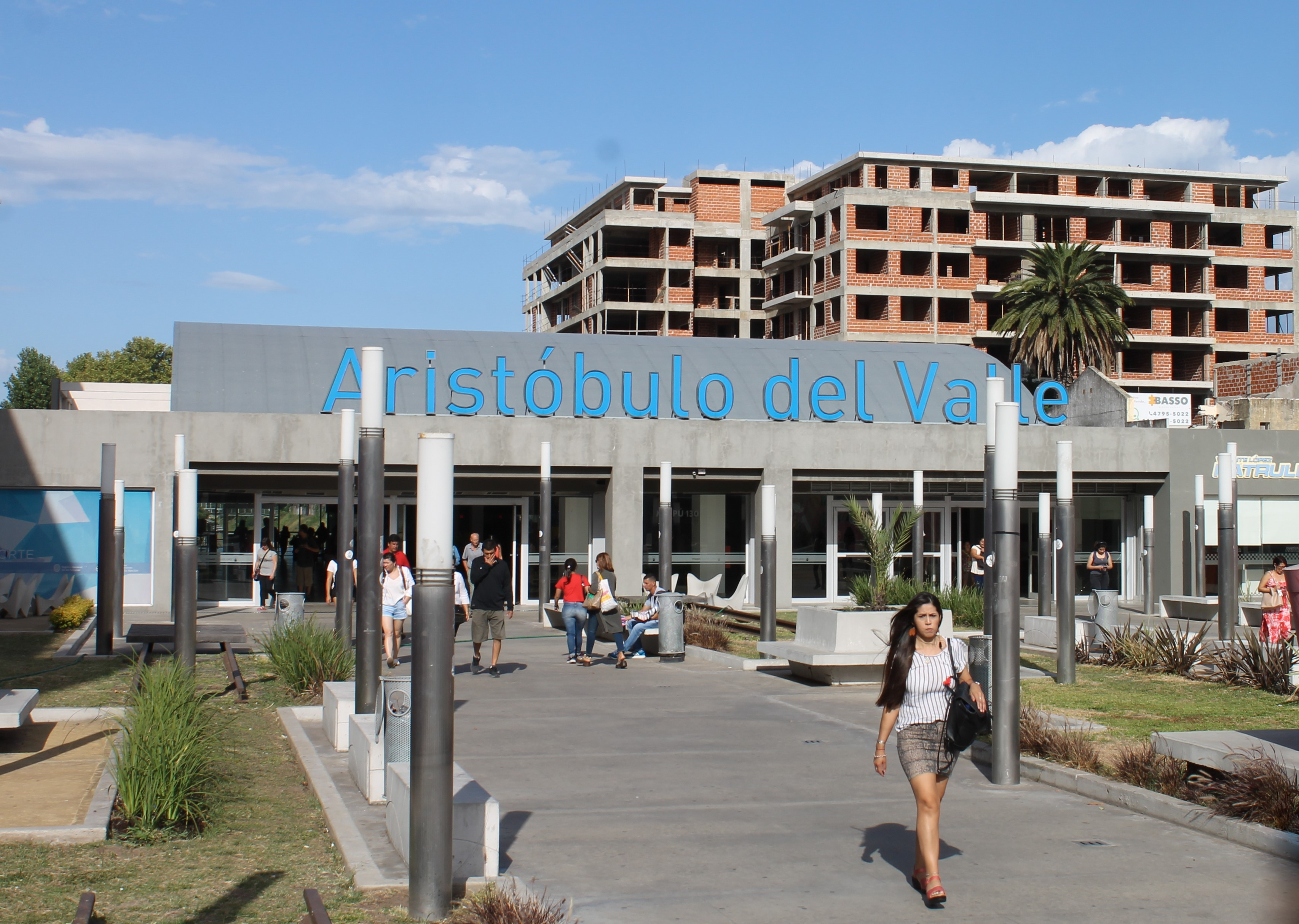 Aristobulo del Valle station in Florida, Buenos Aires Province